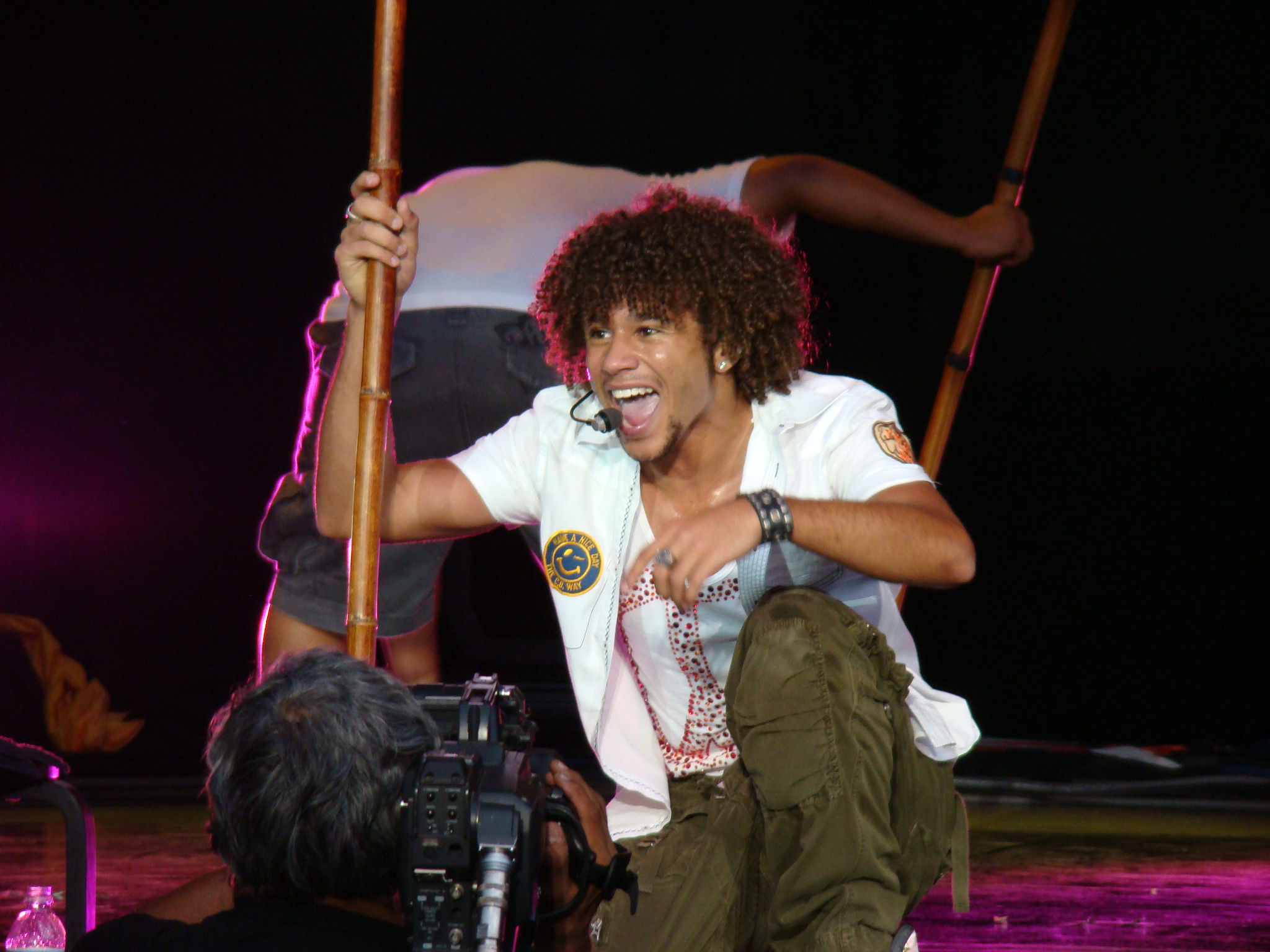 Corbin Bleu in 2007.